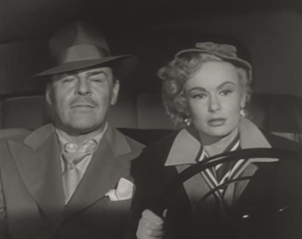 Brian Donlevy & Suzanne Dalbert in the TV series Dangerous Assignment, episode The Key Story - cropped screenshot